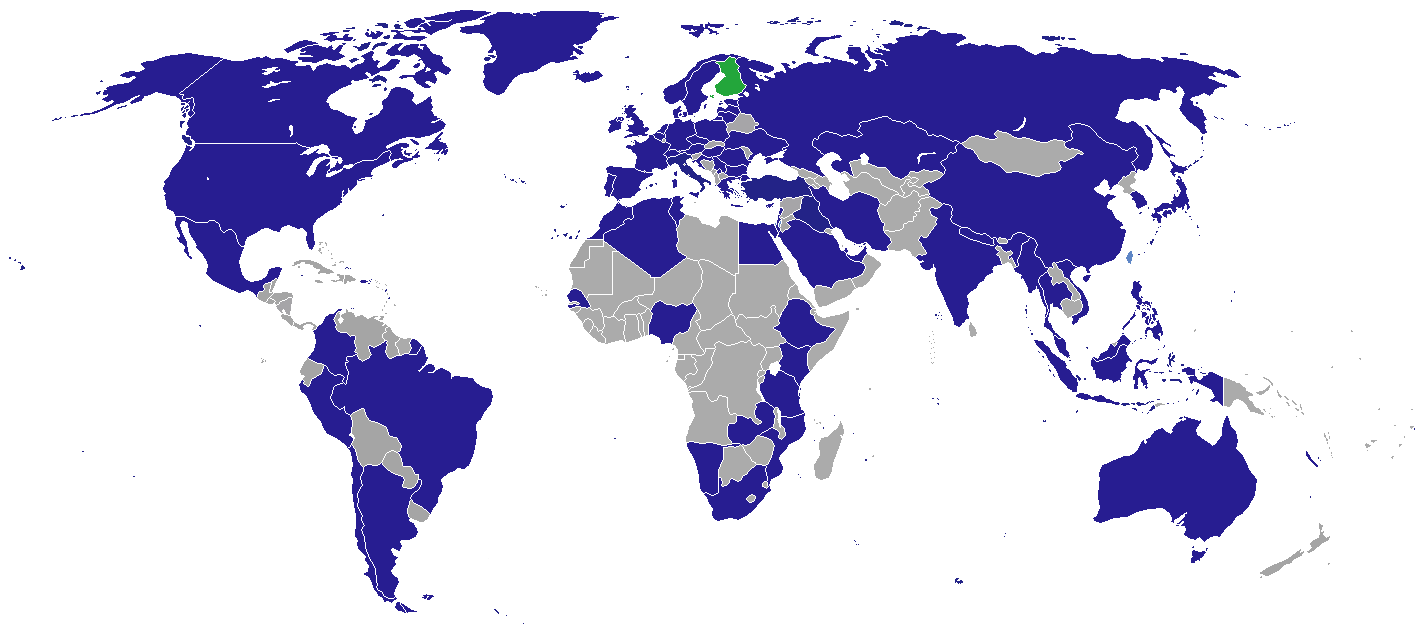 Map of Finnish diplomatic missions: unfortunately unuseable as there is neither any explanation for the different colors nor any data source mentioned.